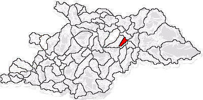 Map of Rozavlea commune in Maramureş County Romania